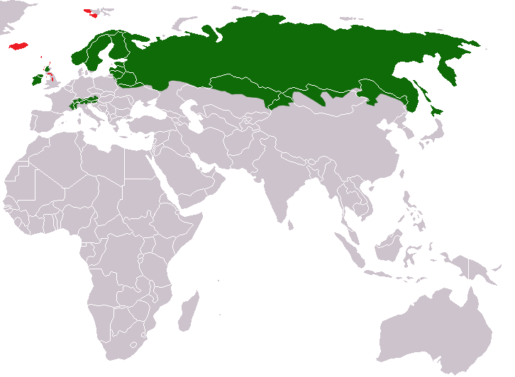 Mountain Hare (Lepus timidus) range (green - native, red - introduced)